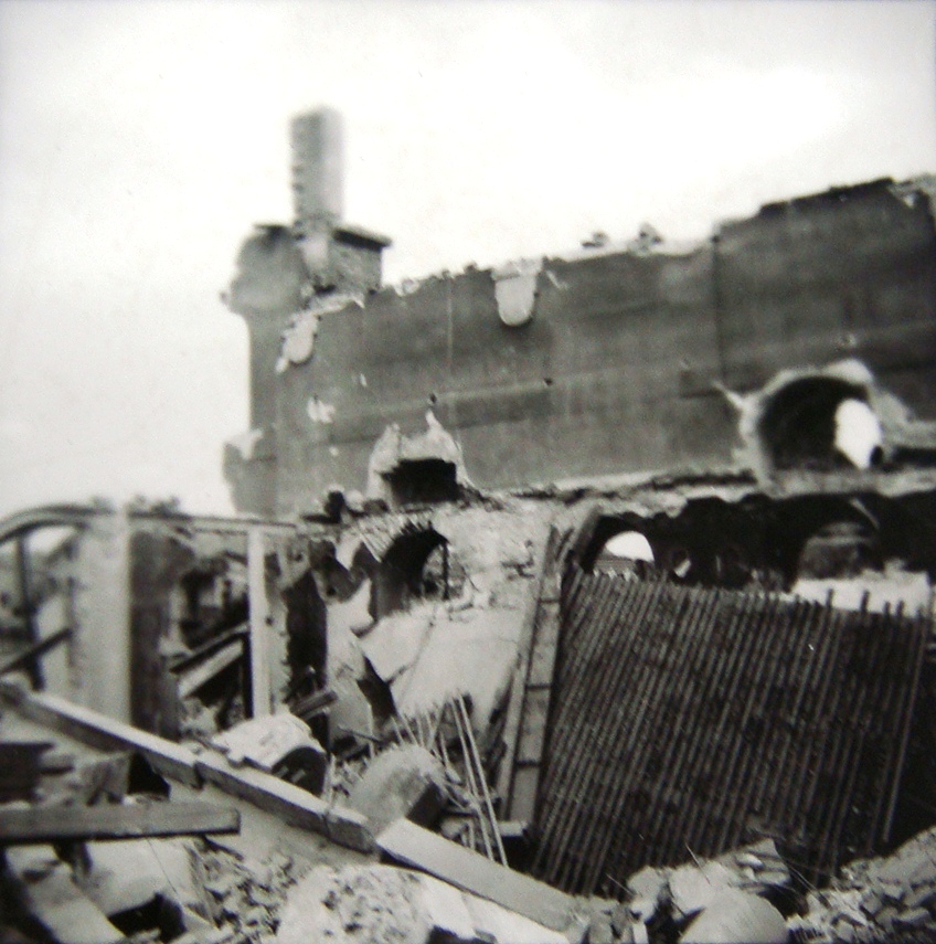 1963 Skopje earthquake: Sts. Constantine and Helena Church This media file is produced by Wikipedian in Residence in Category:Wikipedian in Residence at DARM in 2016.